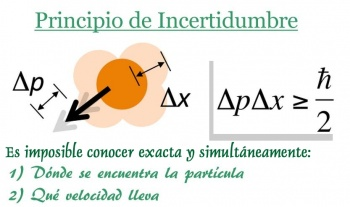 Proyecto de Innovación Docente 2013 de la ETSI de Telecomunicación UPM; coordinador P. Mareca, subido por Alvaro Nieto